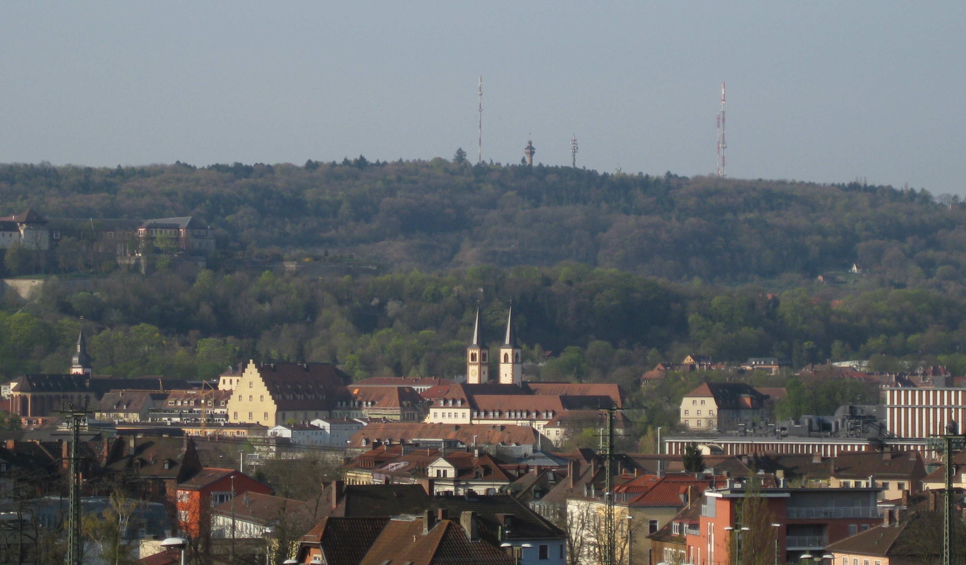 Overview of southern parts of Wurzburg, Bavaria, Germany. The radio masts in the background are those of Frankenwarte, picture taken from B27 near wine yard "Am Stein"